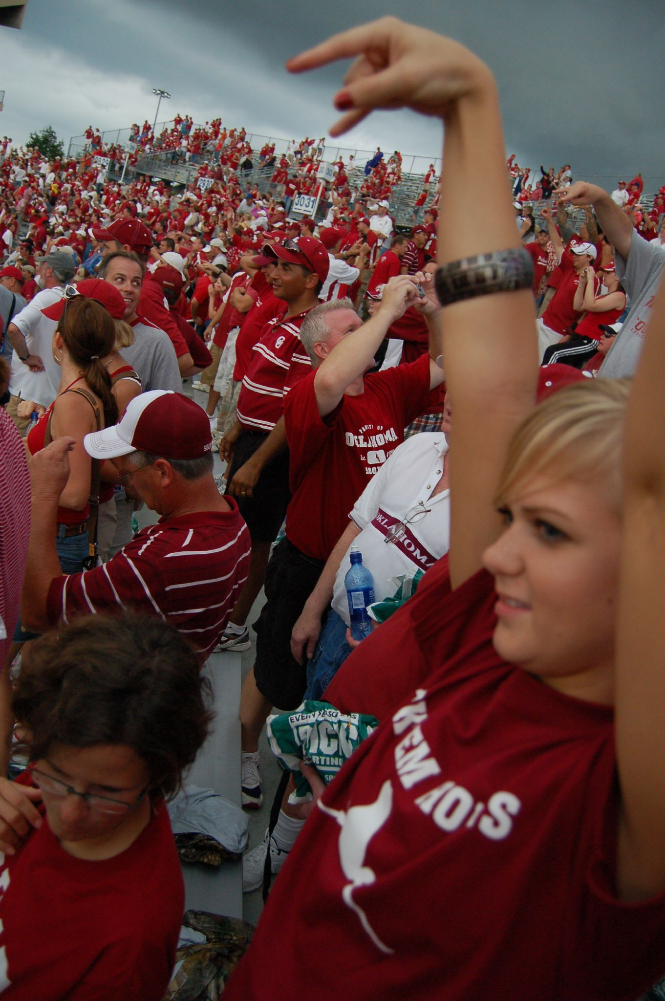 A fan of the University of Oklahoma Sooners gives the "Horns down" side to mock the rival team, the University of Texas Longhorns, during the 2007 Red River Shootout. The taunting hand gesture is an inverted Hook 'em Horns. Note also the upside down Longhorn logo on the t-shirt.